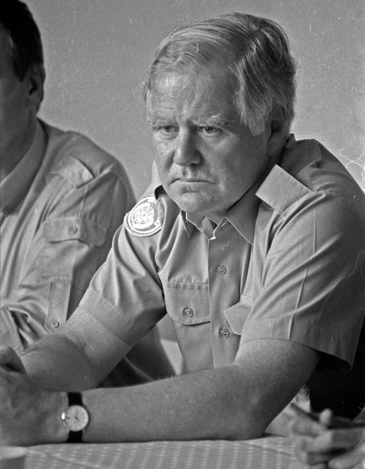 Marrack Goulding in Perquín, El Salvador, in 1992 as part of ONUSAL